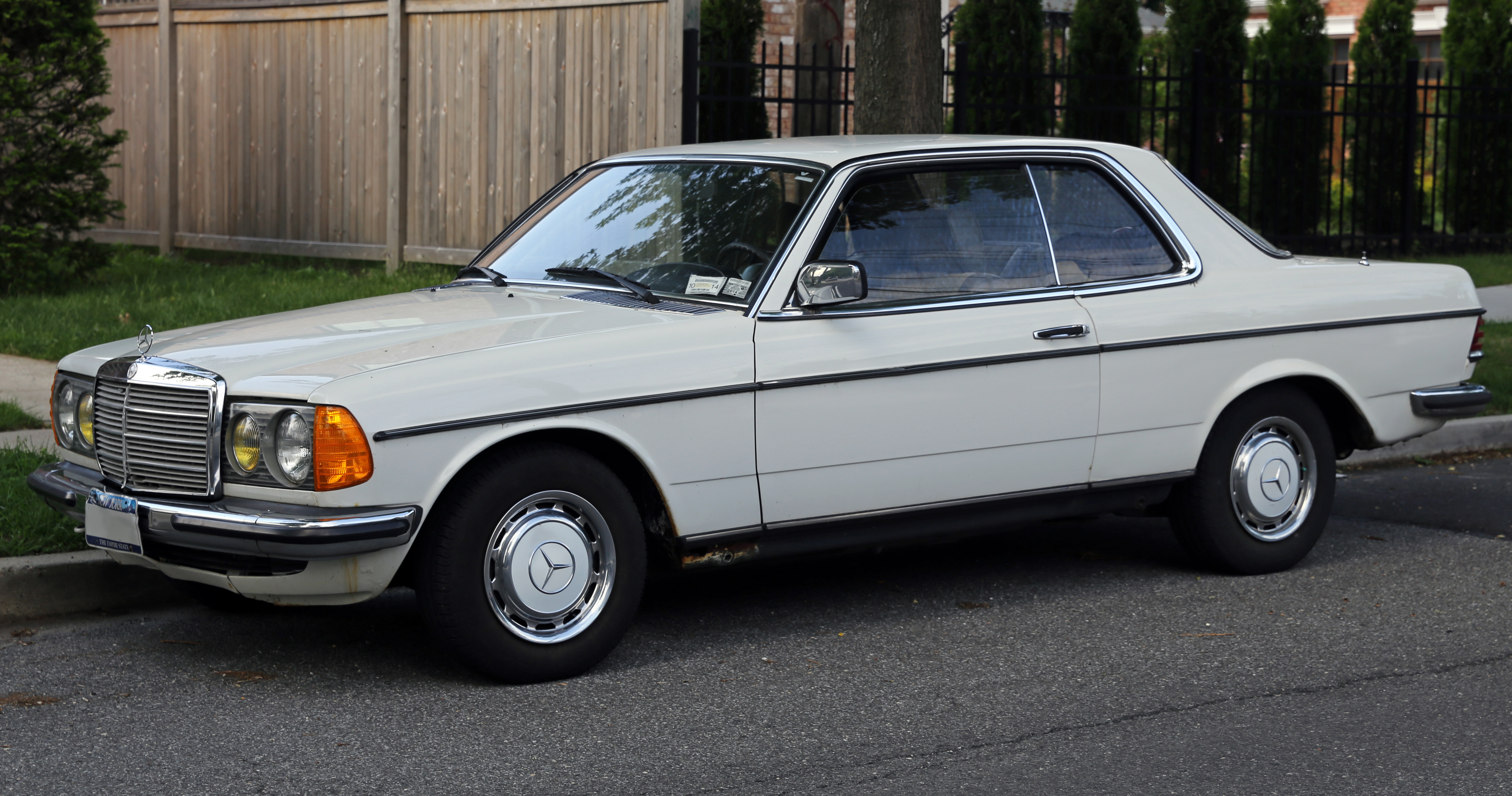 A 1977 Mercedes-Benz 230C (123.043) with the four-speed manual, seen in the Bronx. This is a grey market import, retaining all of its European fittings such as headlights and bumpers. For sale: I reeeallly want it.